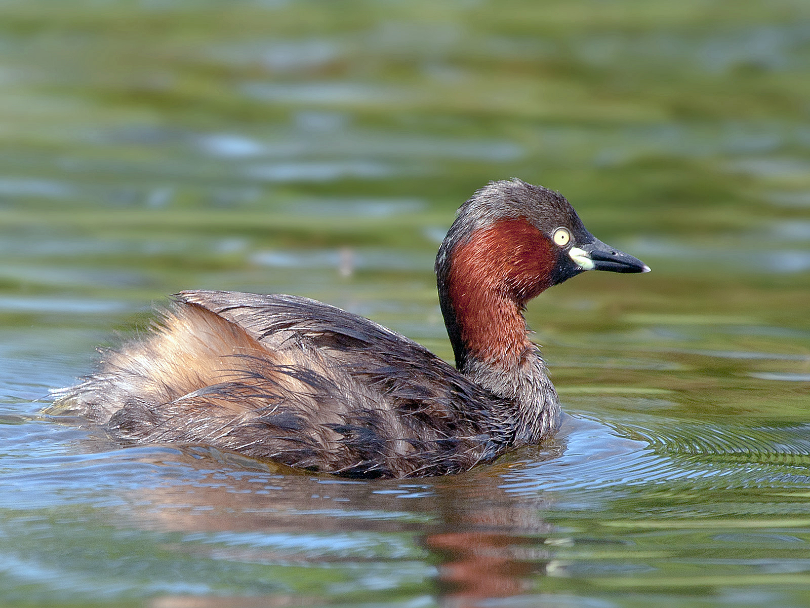 Tachybaptus ruficollis poggei, Takikawa, Hokkaido, Japan.